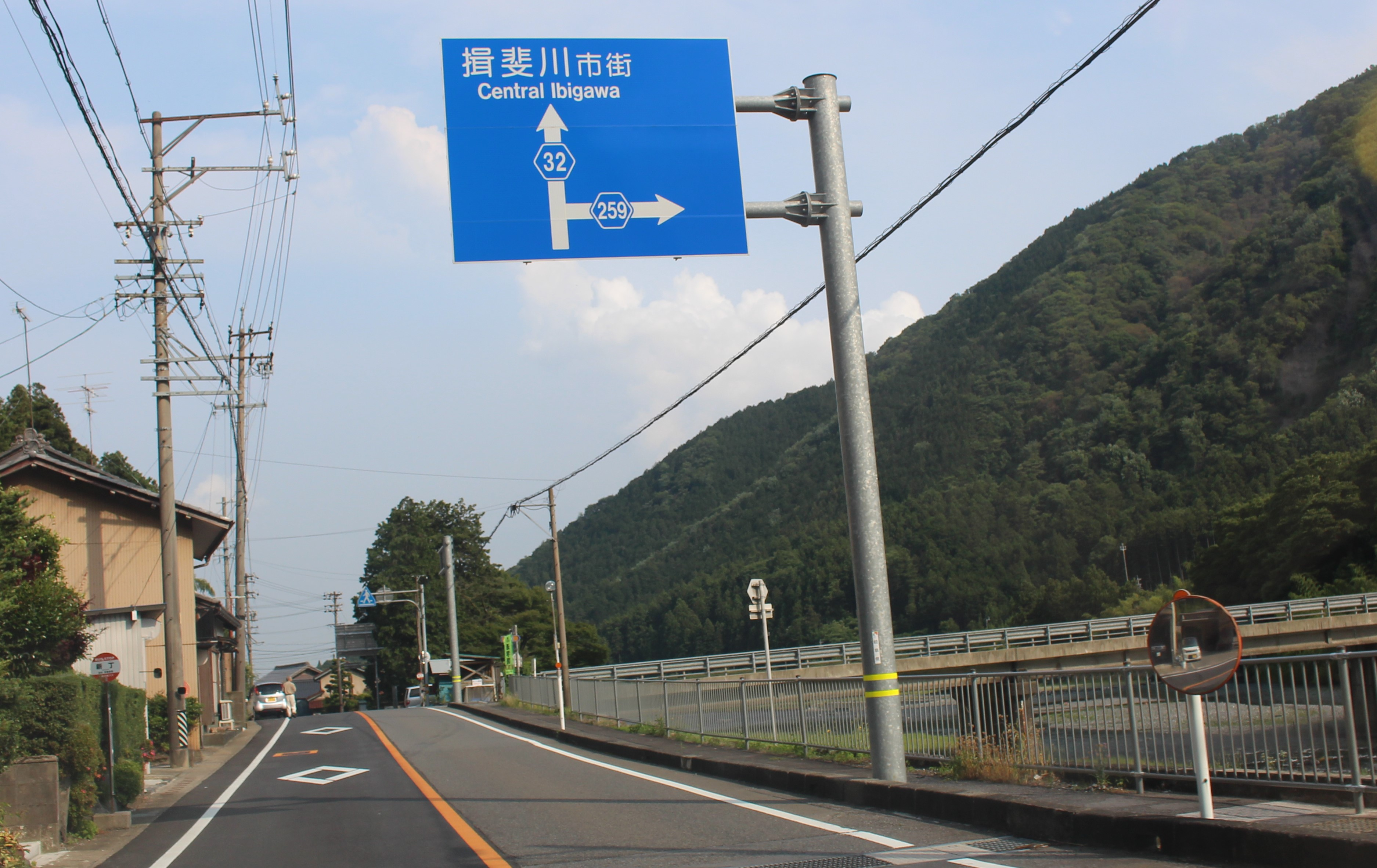 Gifu Prefectural Road Route 32 and Gifu Prefectural Road Route 259 (Zuiganji Bridge over Kasu River) in Ichiba, Ibigawa, Gifu Prefecture, Japan.